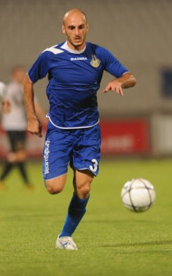 Picture of Ian Azzopardi.